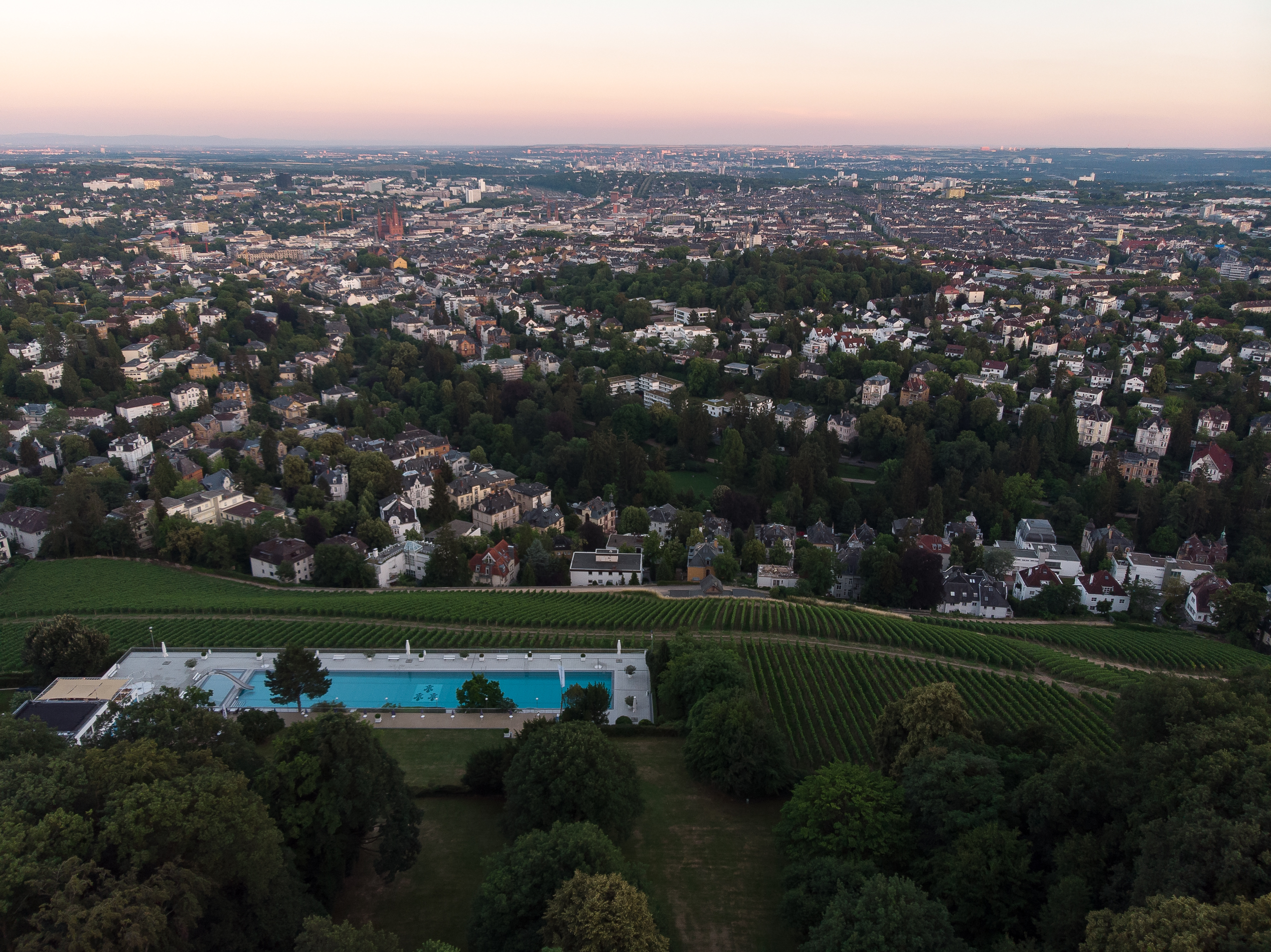 The Opelbad